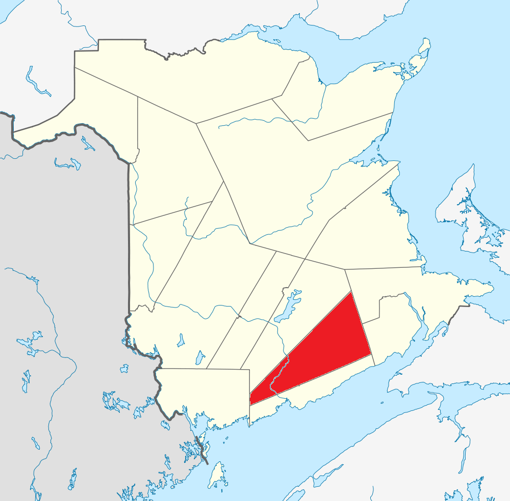 Map of New Brunswick highlighting Kings County